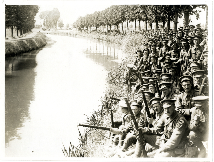 A battalion of the new army resting on a march [near Merville, France].